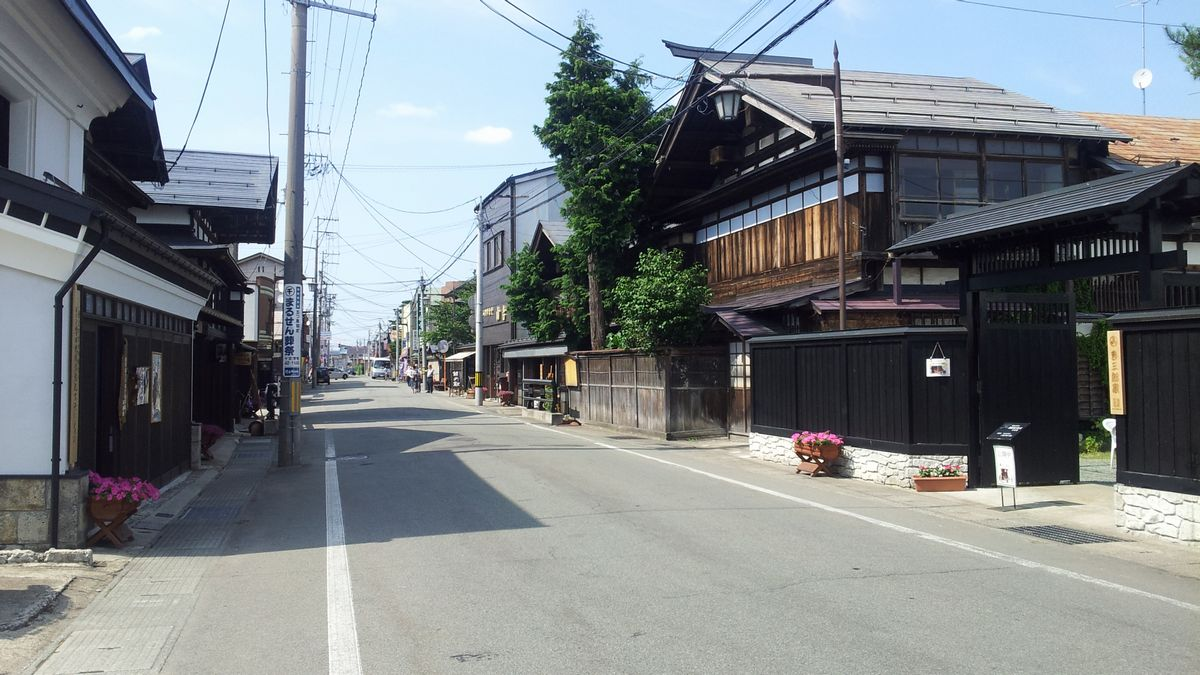 Nakananokamachi Street (Nakananokamachi-dori) in Yokote City, Akita Prefecture, Japan